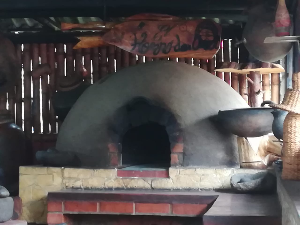 Gastronomía Paccha